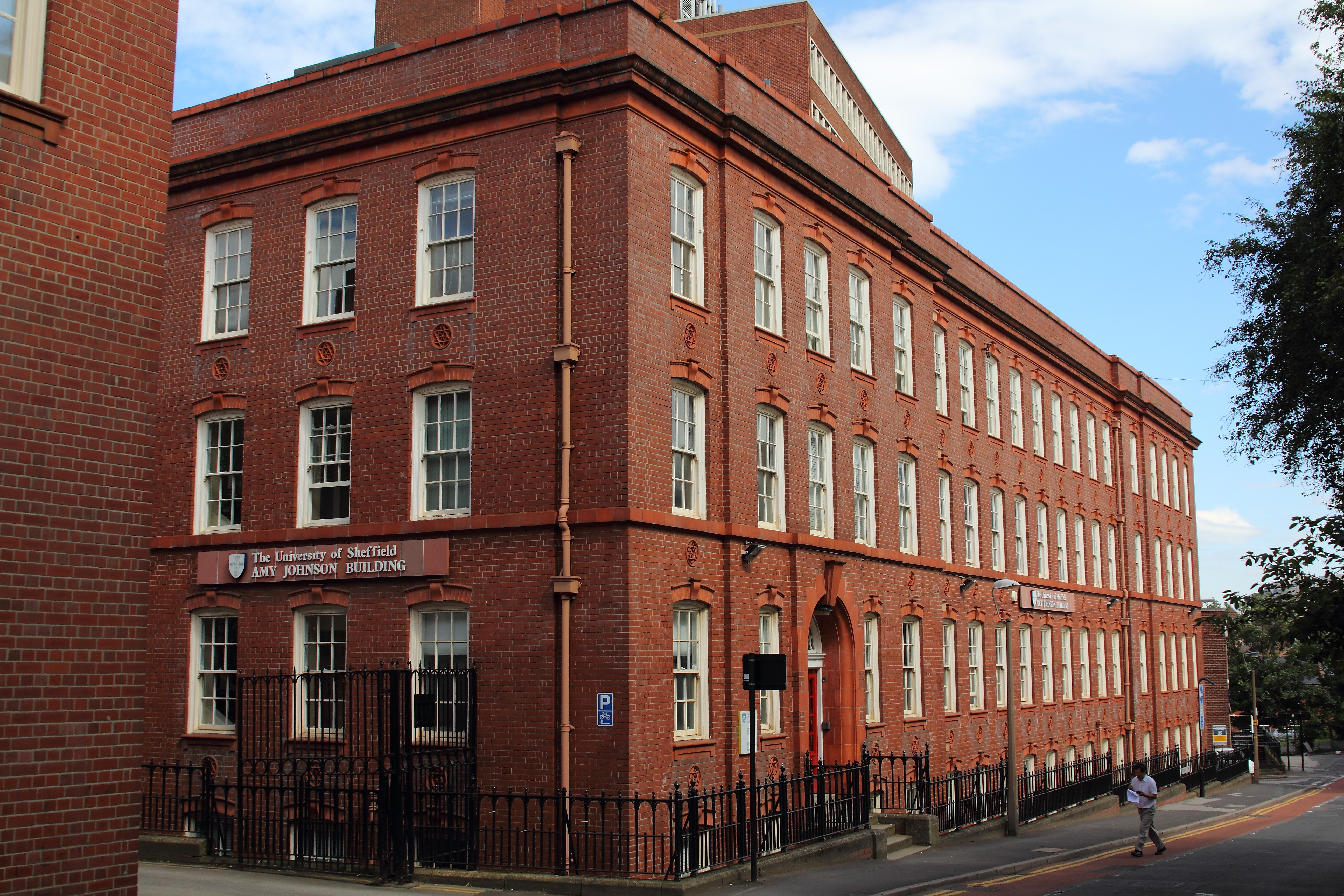 Shefuniarmyjohnson2012